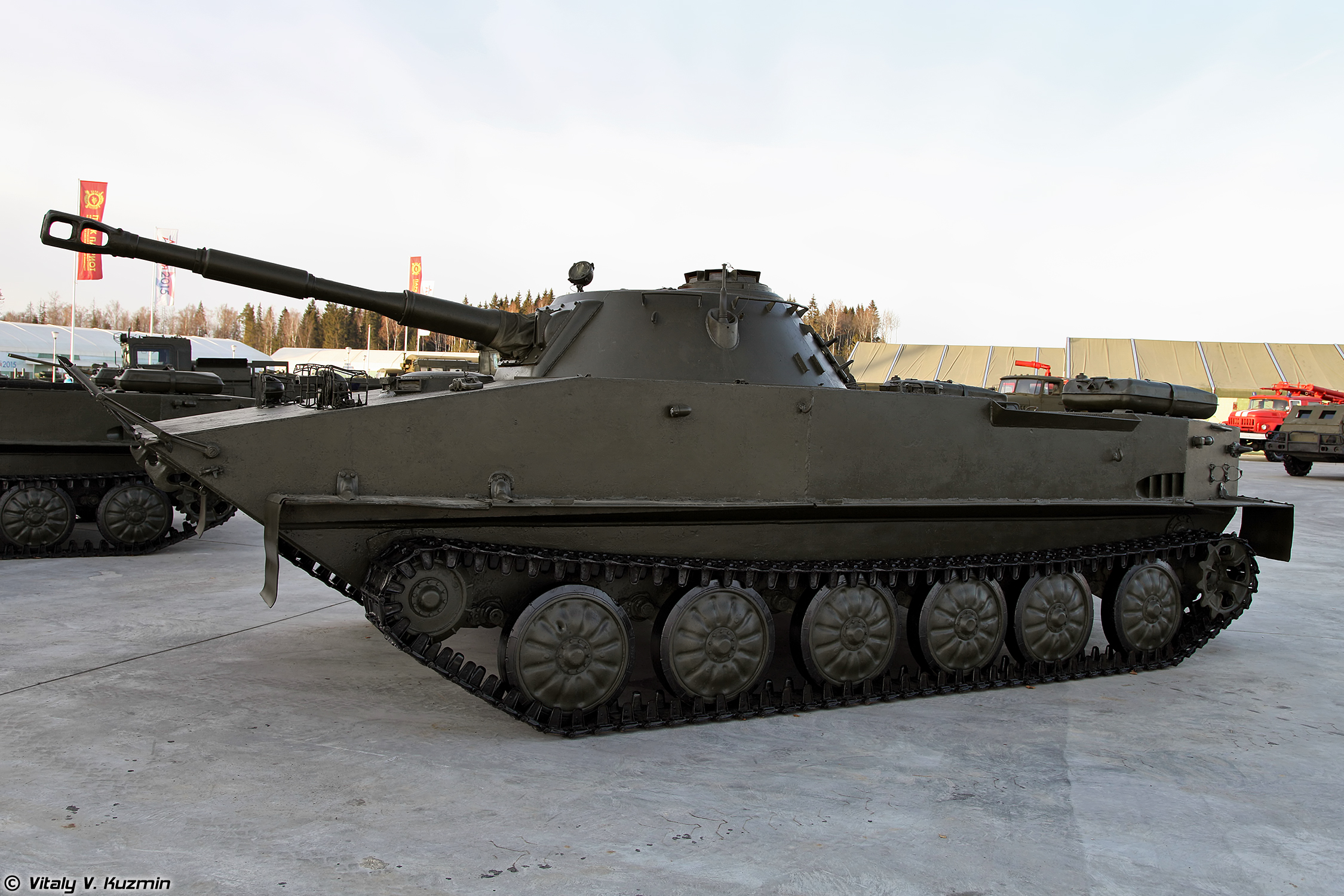 Light amphibious tank PT-76B